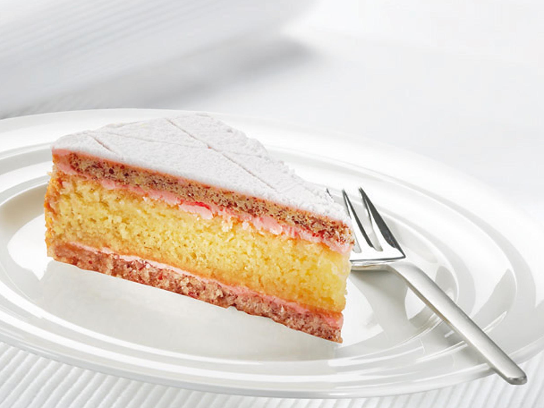 A slice of Zug cherry cake